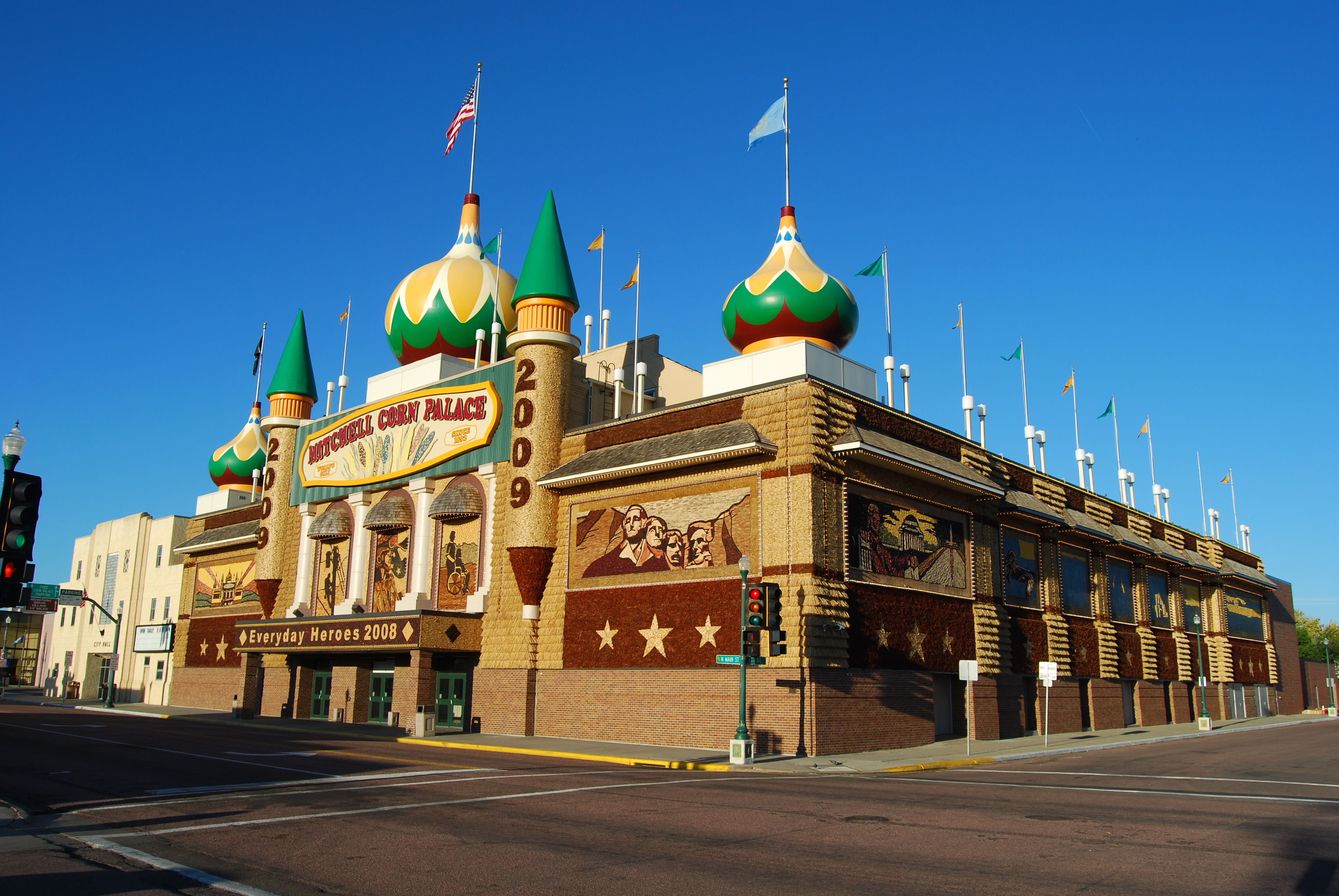 Mitchell Corn Palace, Mitchell, South Dakota. Shown in 2008 decorations.